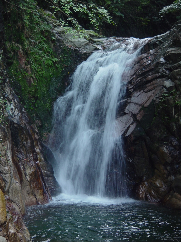 Uodomekaki_Ugakei